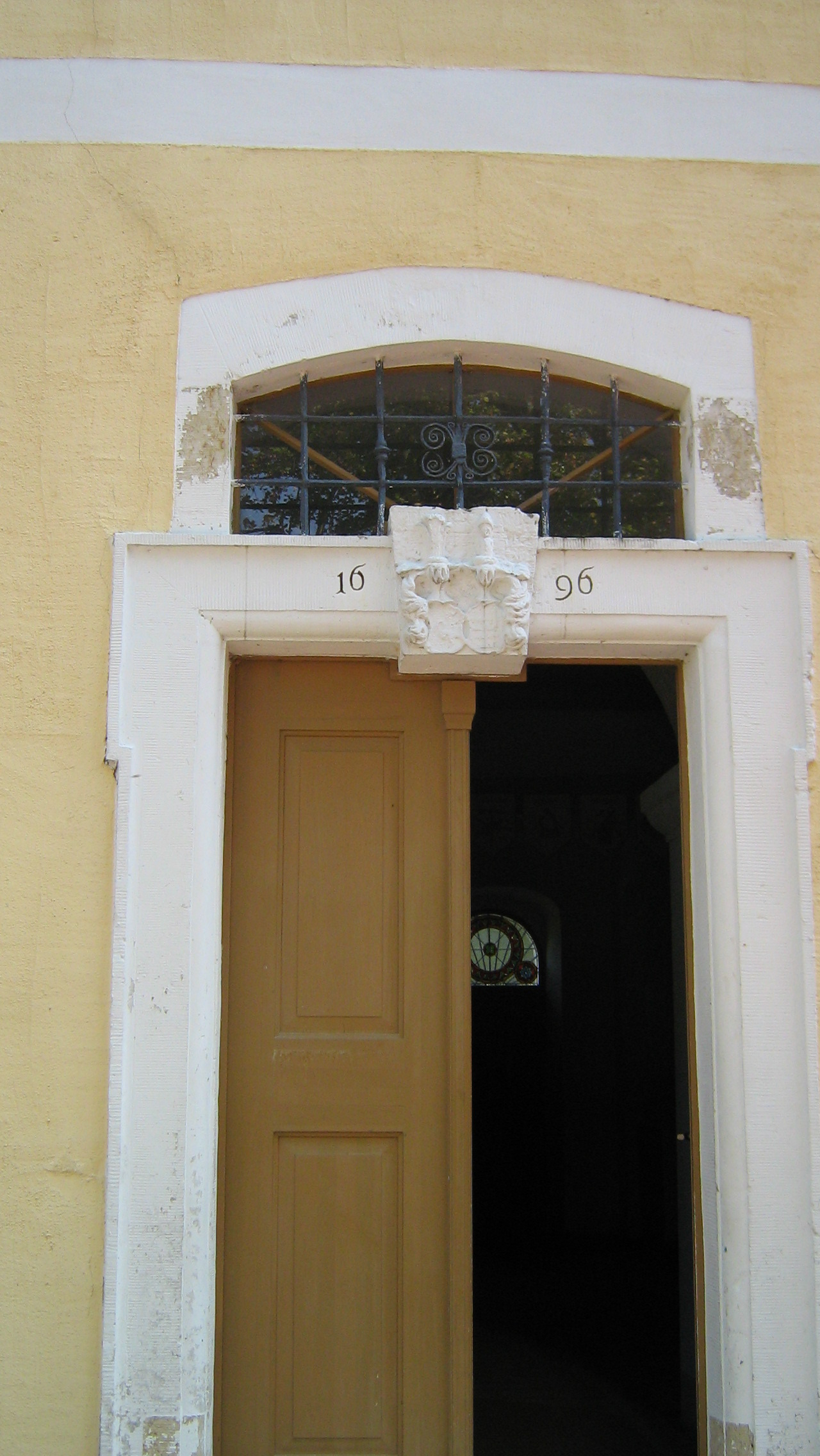 The entry of manor house Herrenhaus Röcknitz